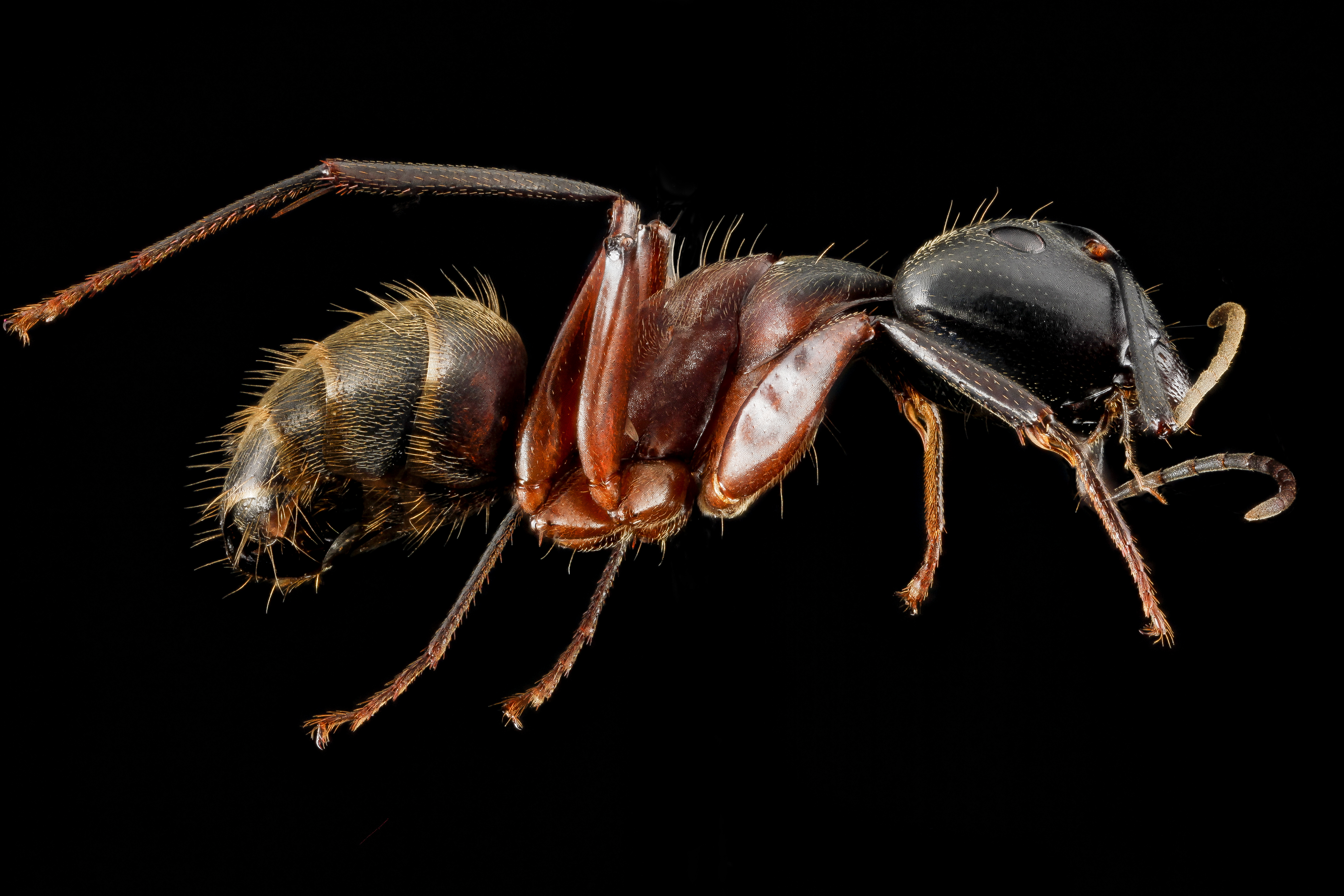 Camponotus chromaiodes (Thank you James Trager for determination) from Chino Farms, Maryland